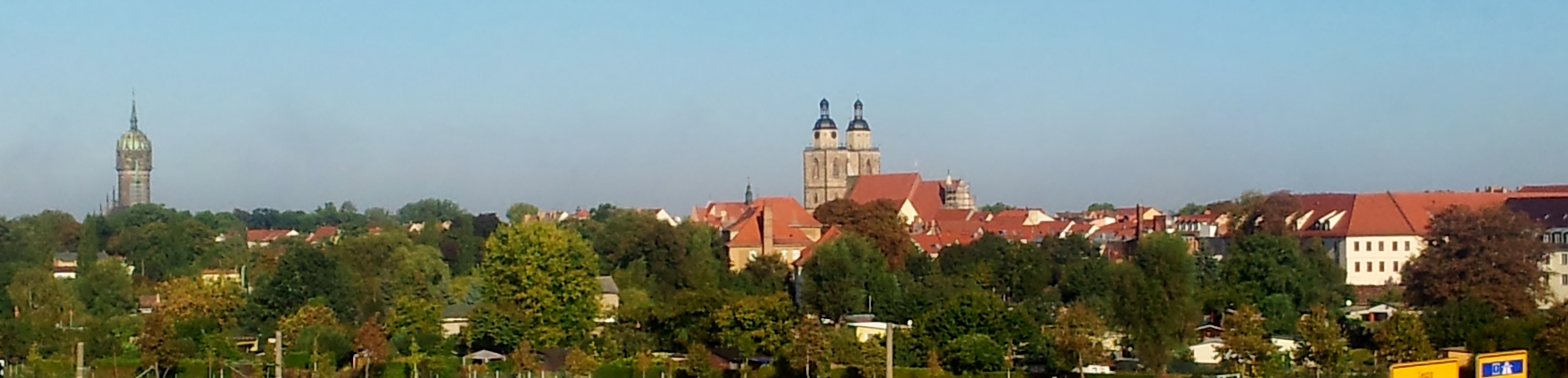 Panorama of Lutherstadt Wittenberg Old City